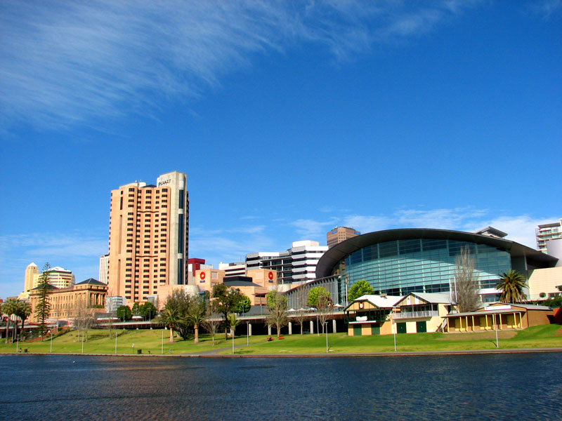 The Adelaide Convention Centre and Exhibition Hall on the River Torrens. From left to right: rear - Myer Centre front- Adelaide railway station rear - Edge of old AMP building / currently called Origin building front- Hyatt hotel rear - (red/crimson) ? front- (with red octagon logos at each end) - Adelaide Convention Centre rear - Four buildings: ? ; Dame Roma Mitchel building; Riverside centre; top of "State Bank" tower - at time of photo "Santos House" - currently "WestPac House" front- Exhibition Centre in front of Exhibition Centre - Three boat houses